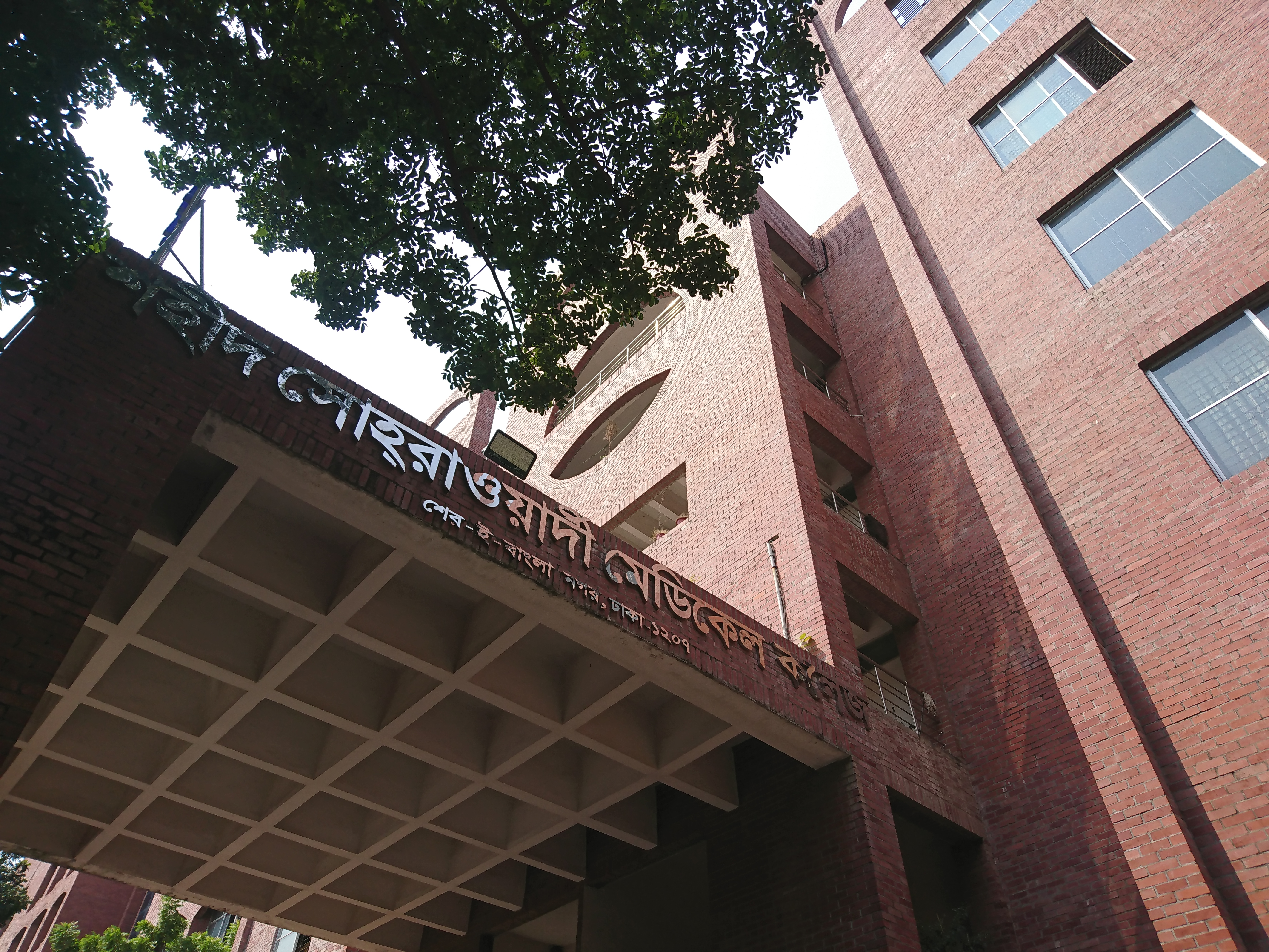 ShSMC new building